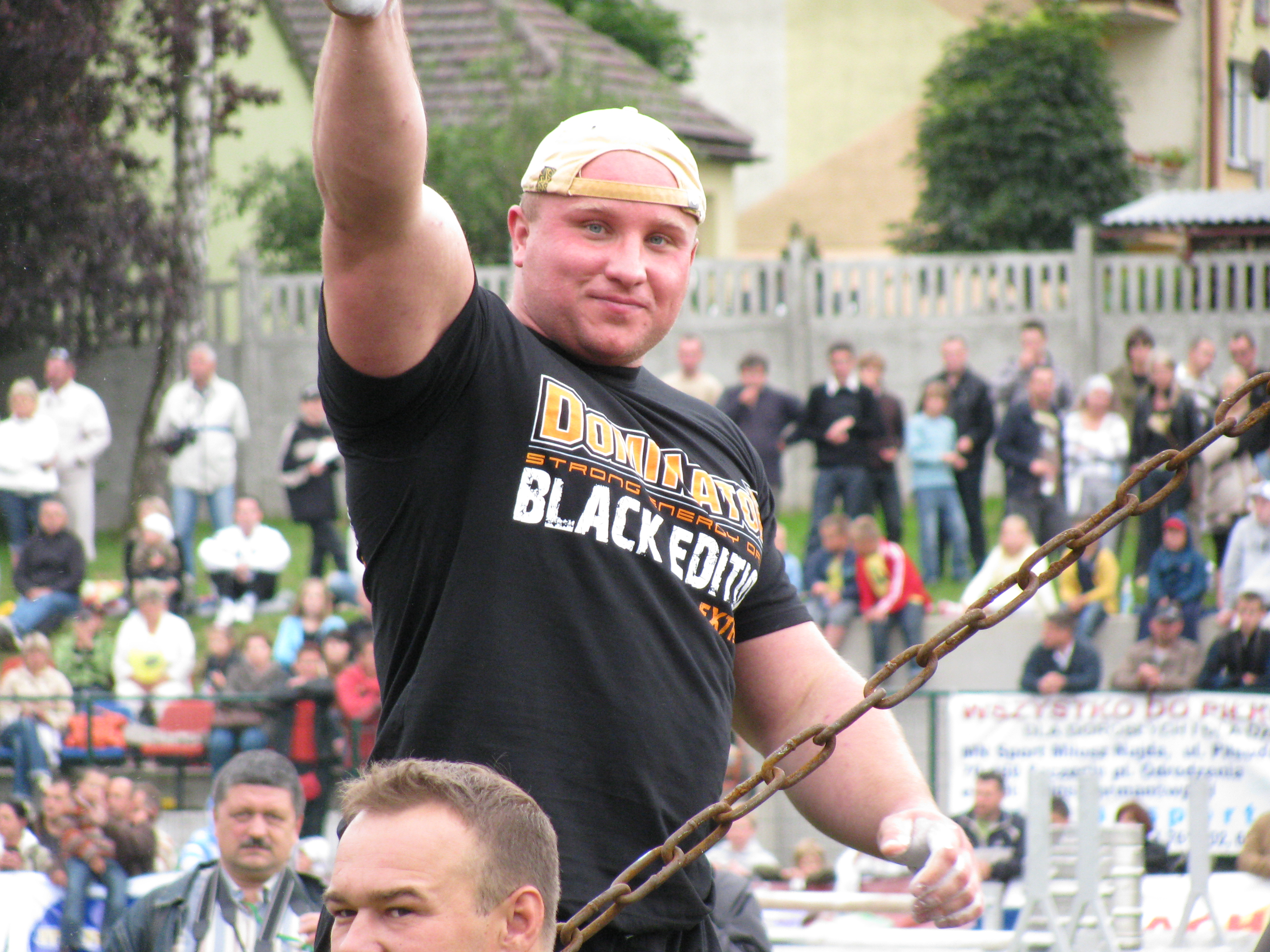 Grzegorz Szymanski - a strength athlete from Poland